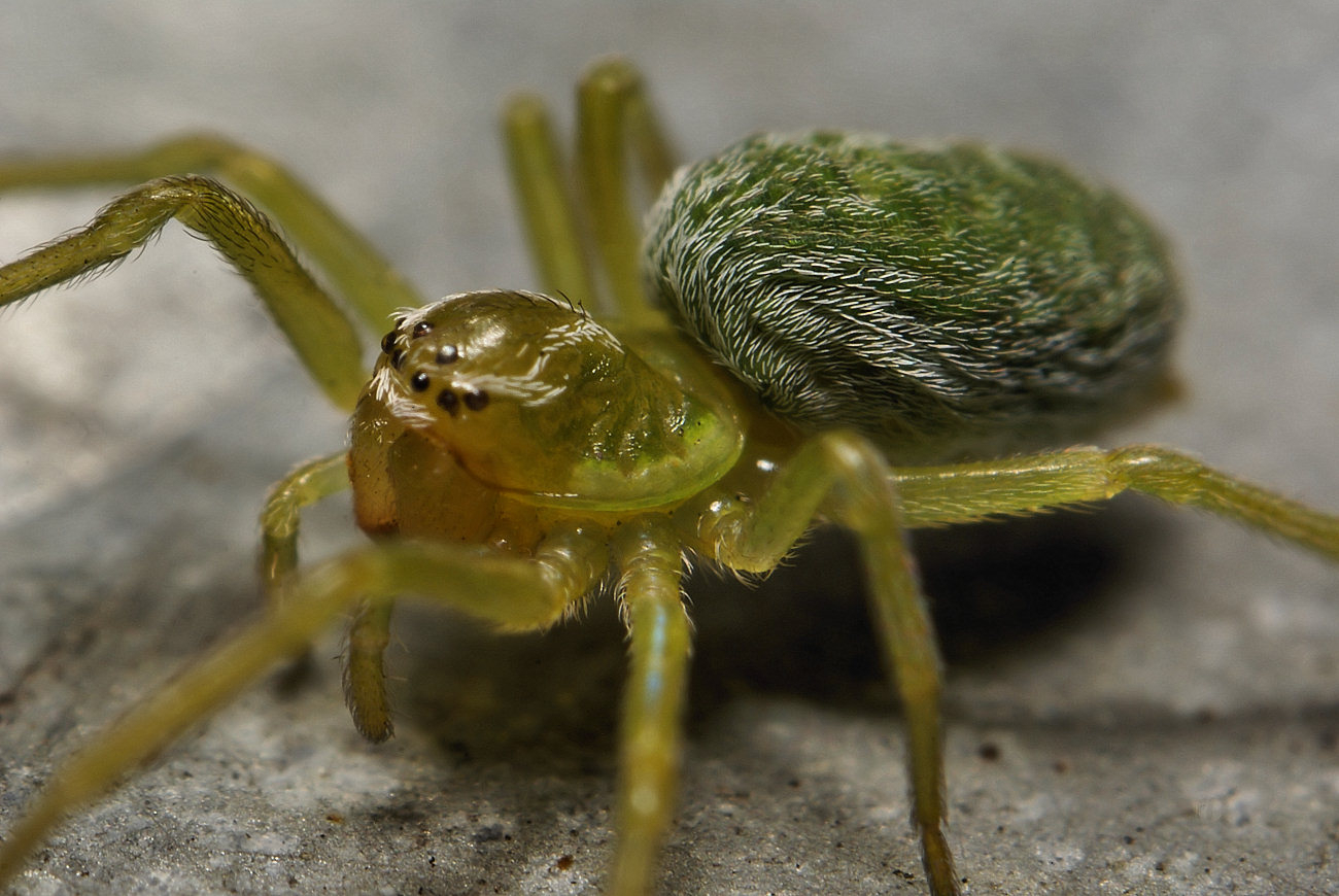 Nigma walckenaeri - no other name known the shot was done with a 28mm-lens retro attached to 52mm extension-tubes